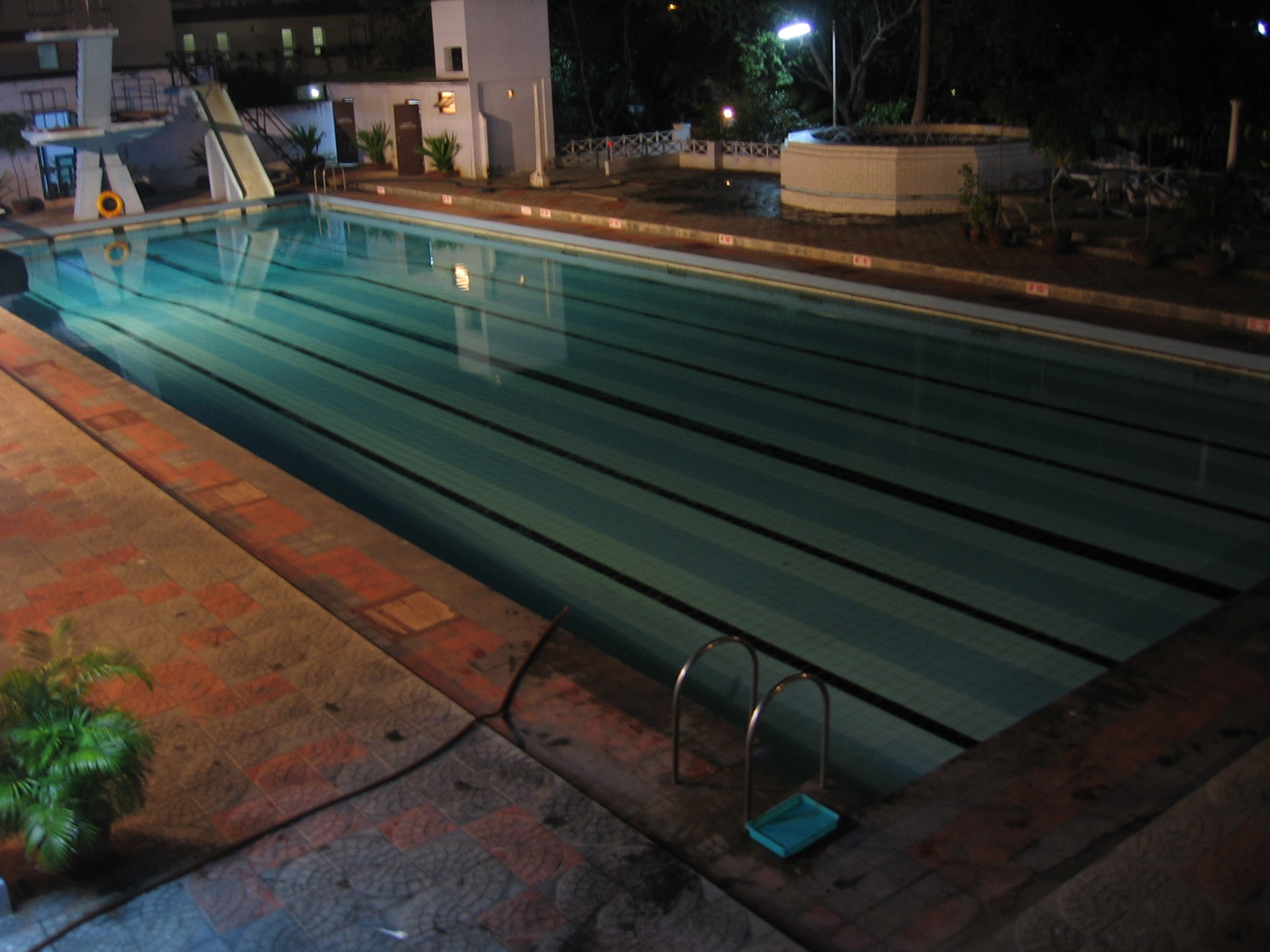 Madras Gymkhana Club Swimming Pool at night